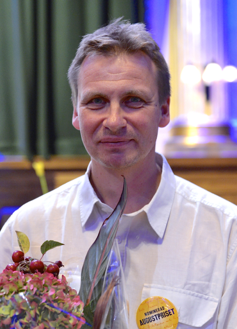 Nominated for the August Prize 2014.